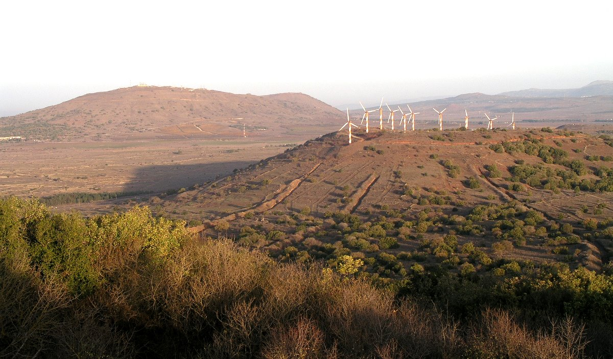 bney-ressen mount-ramat hagolan